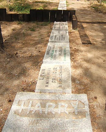 "Harry" tunnel at Stalag Luft III, Sagan, in Poland. Scene of the "Great Escape" by allied POWs in March 1944.